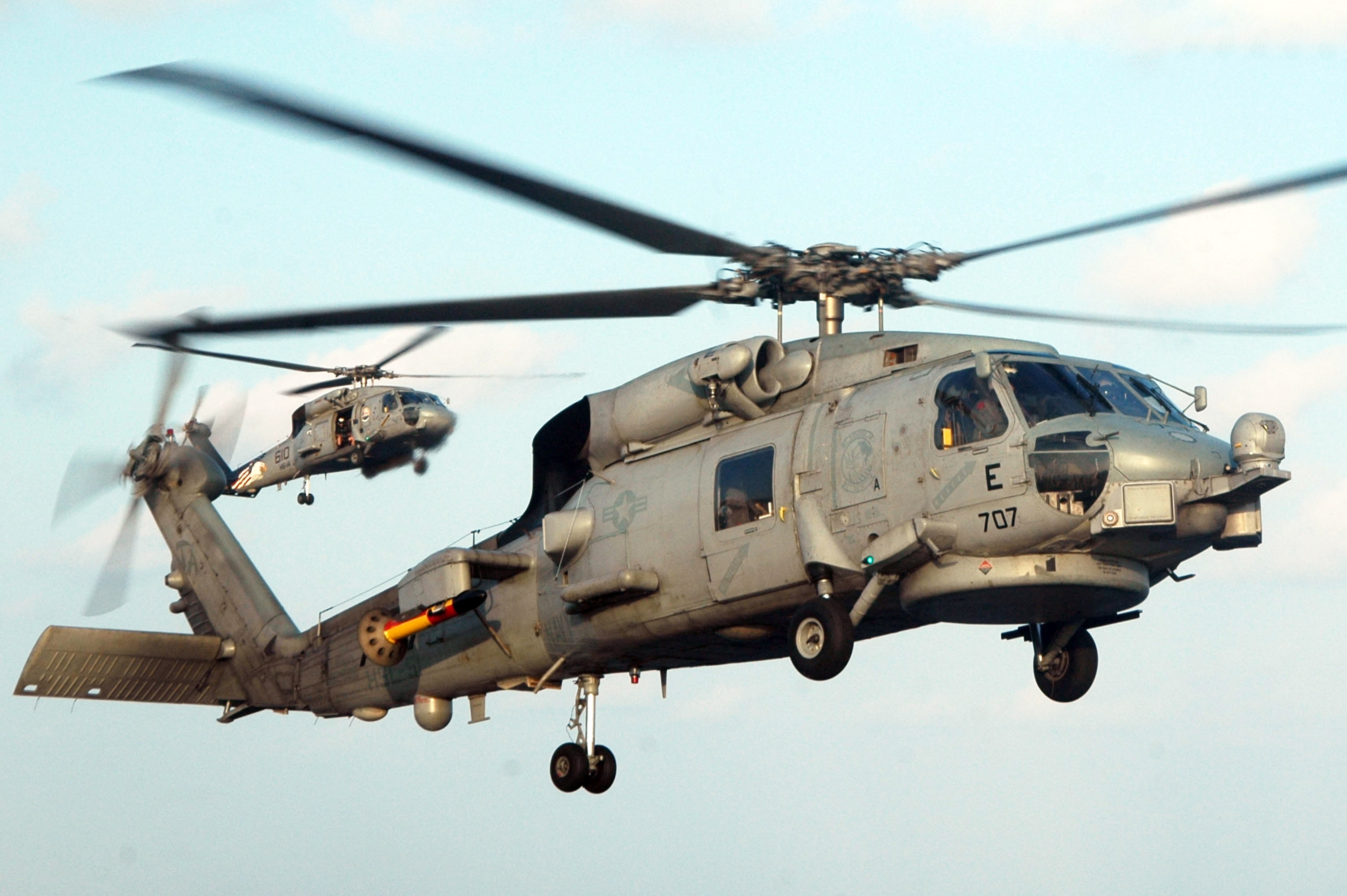 SH-60B Seahawk helicopter and SH-60F Seahawk prepare to land on the flight deck of USS Kitty Hawk (CV 63) assigned to Helicopter Anti-Submarine Squadron Light Five One (HSL-51), foreground, and an SH-60F Seahawk, assigned to Helicopter Anti-submarine Squadron Fourteen (HS-14), prepare to land on the flight deck of USS Kitty Hawk (CV 63). Kitty Hawk and embarked Carrier Air Wing Five (CVW-5) are currently conducting operations in the Western Pacific Ocean.